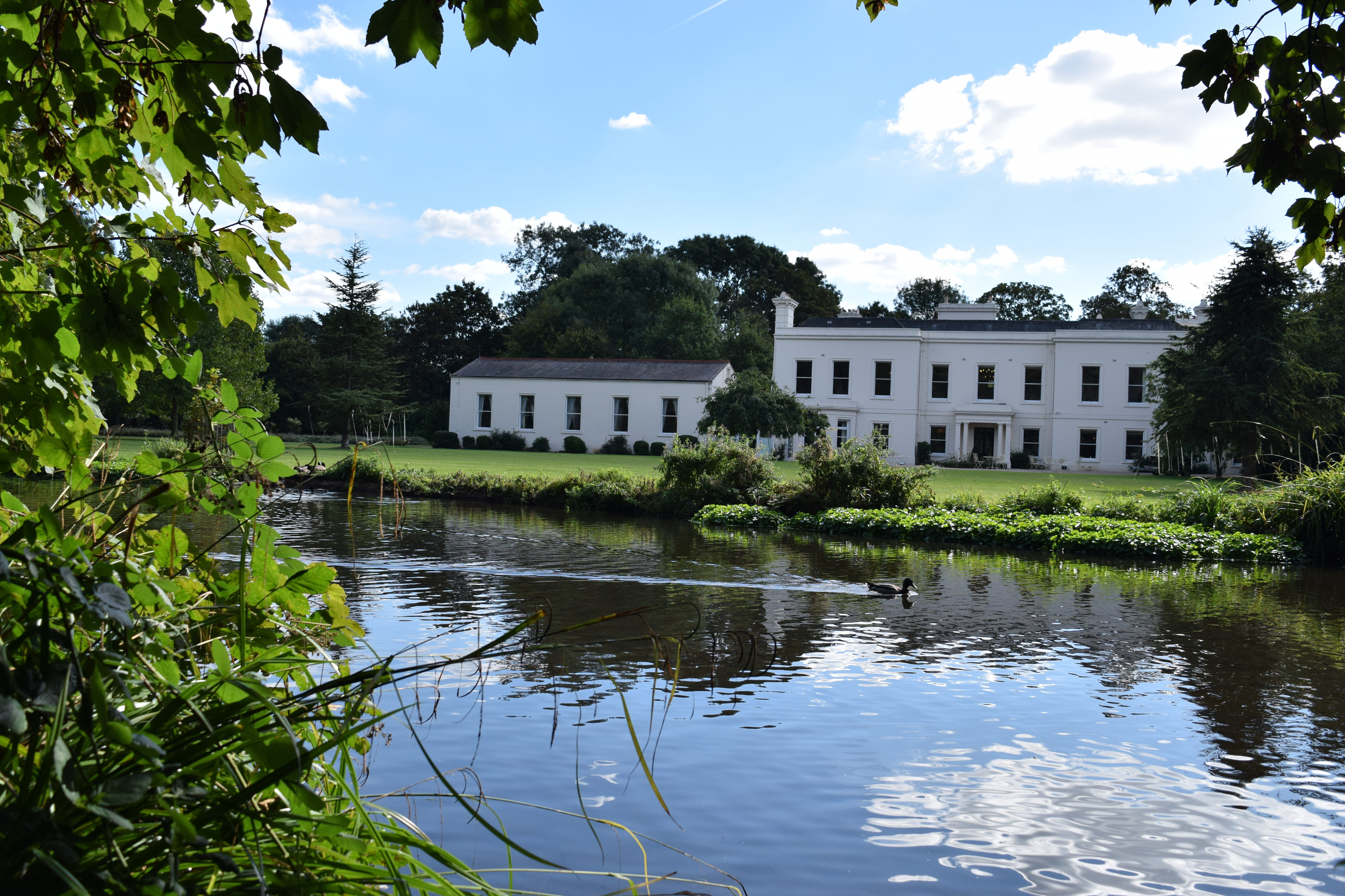 Morden Hall Wikidata has entry Q26355955 with data related to this item.